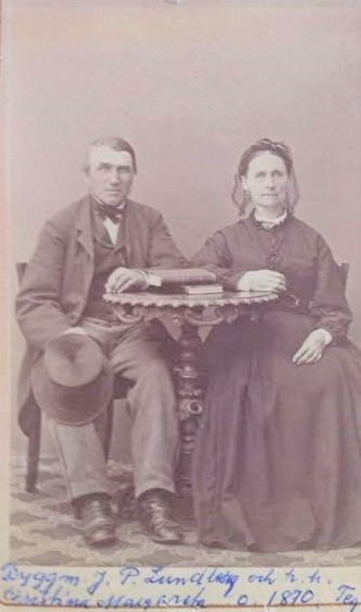 Constructor Johan Petter Lundberg and wife, Teg, Sweden, 1870